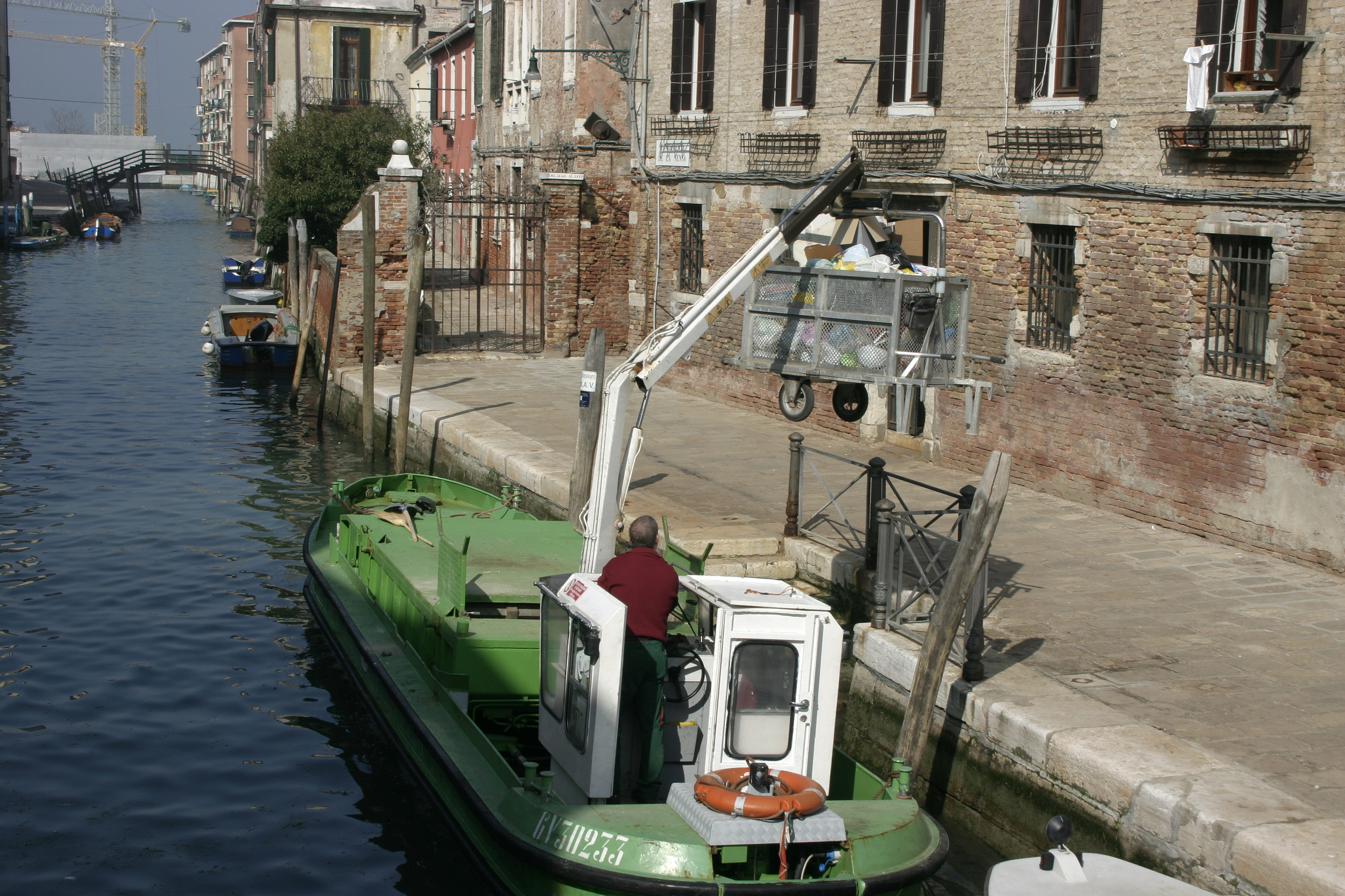 Venice – Garbage transport